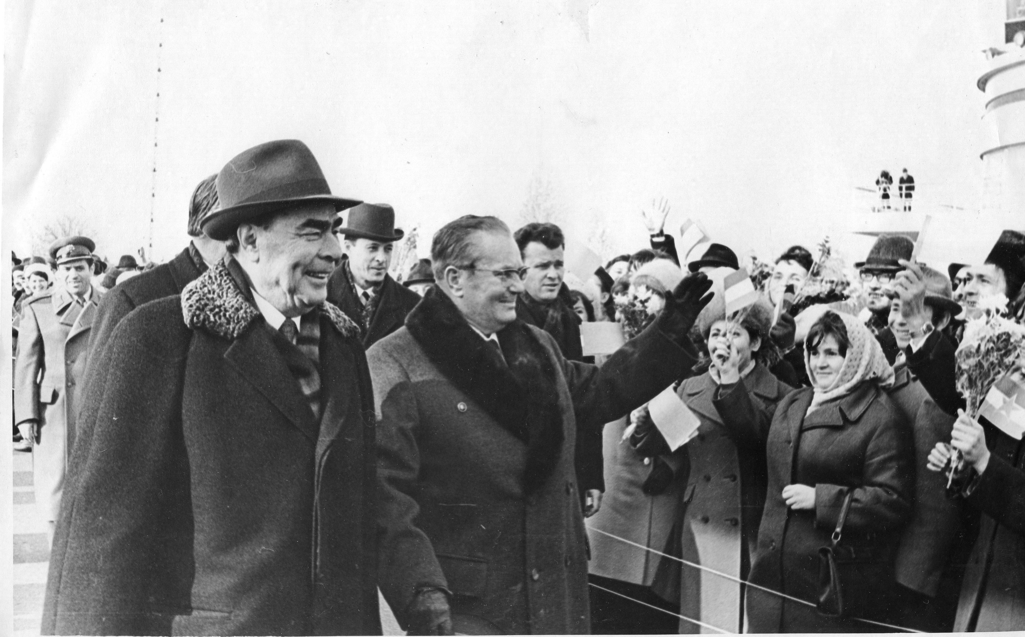 Leonid Brezhnev and Josip Broz Tito in Kiev (Ukraine), November 19th, 1973.